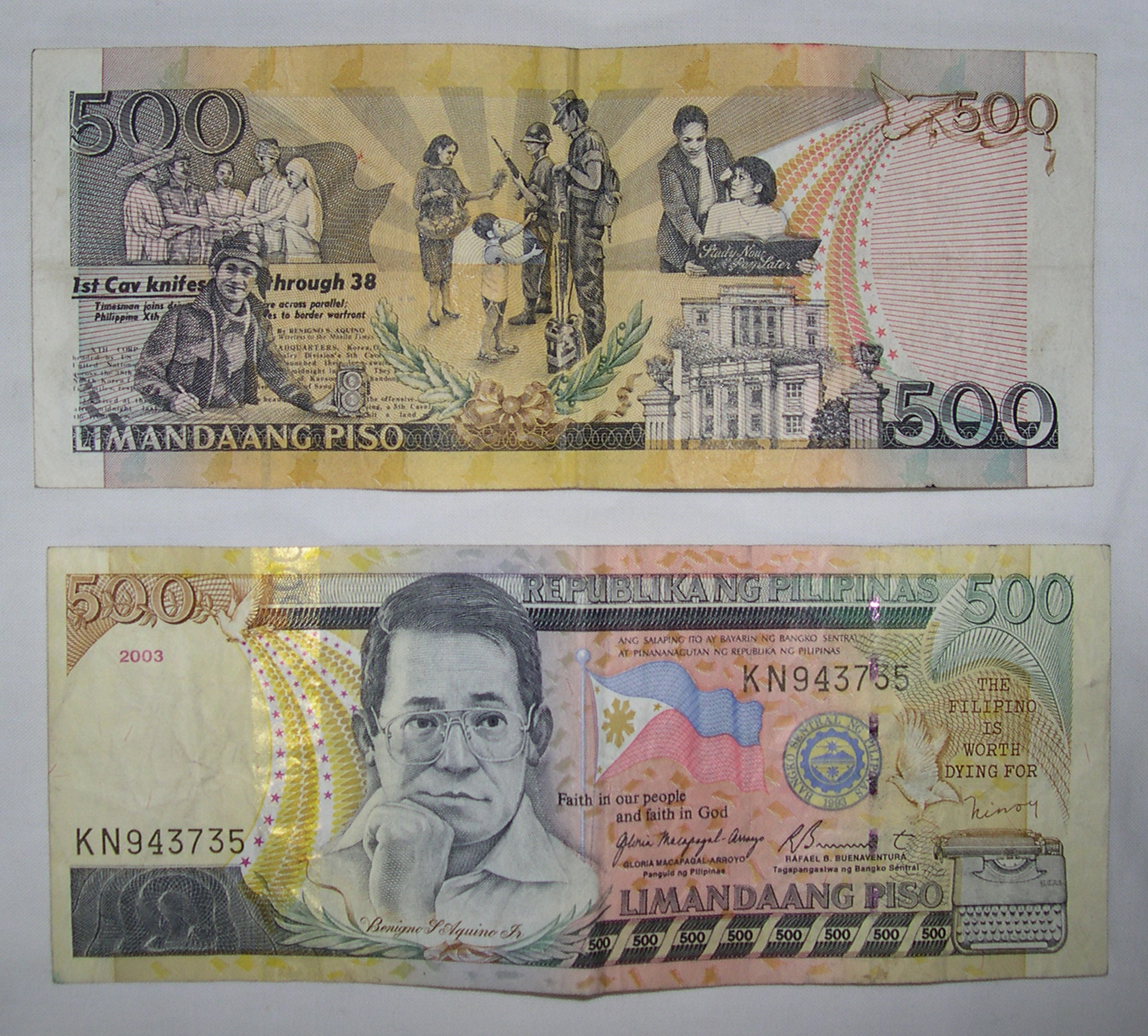 The front and back of a Philippine Peso bill of 500. Picture taken by Magalhães on March 27th 2006